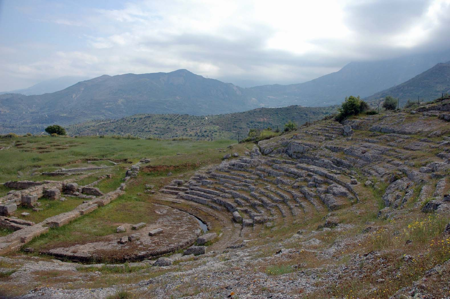 Theater von Aigeira